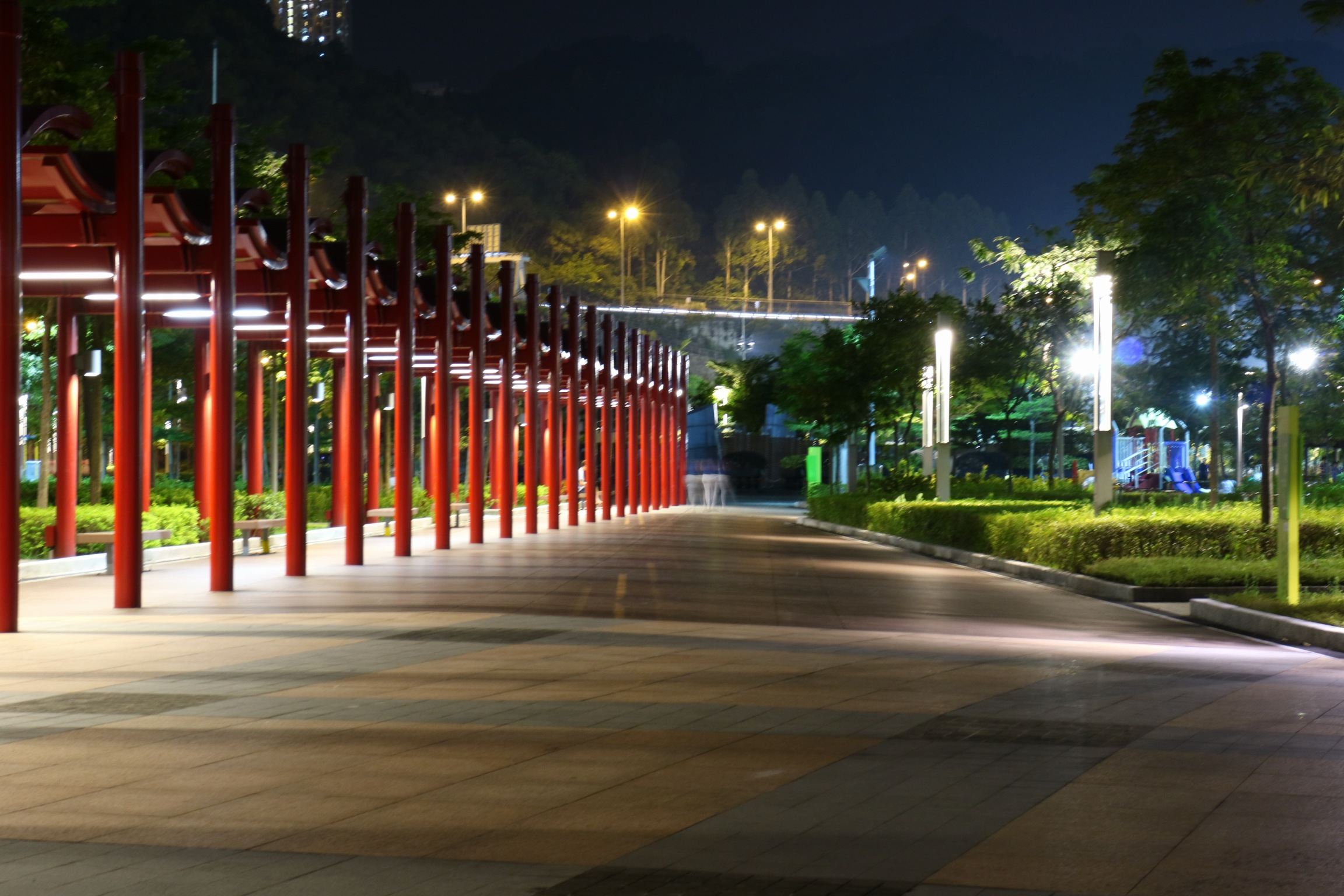 The night view of Tsing Yi Northeast Park.